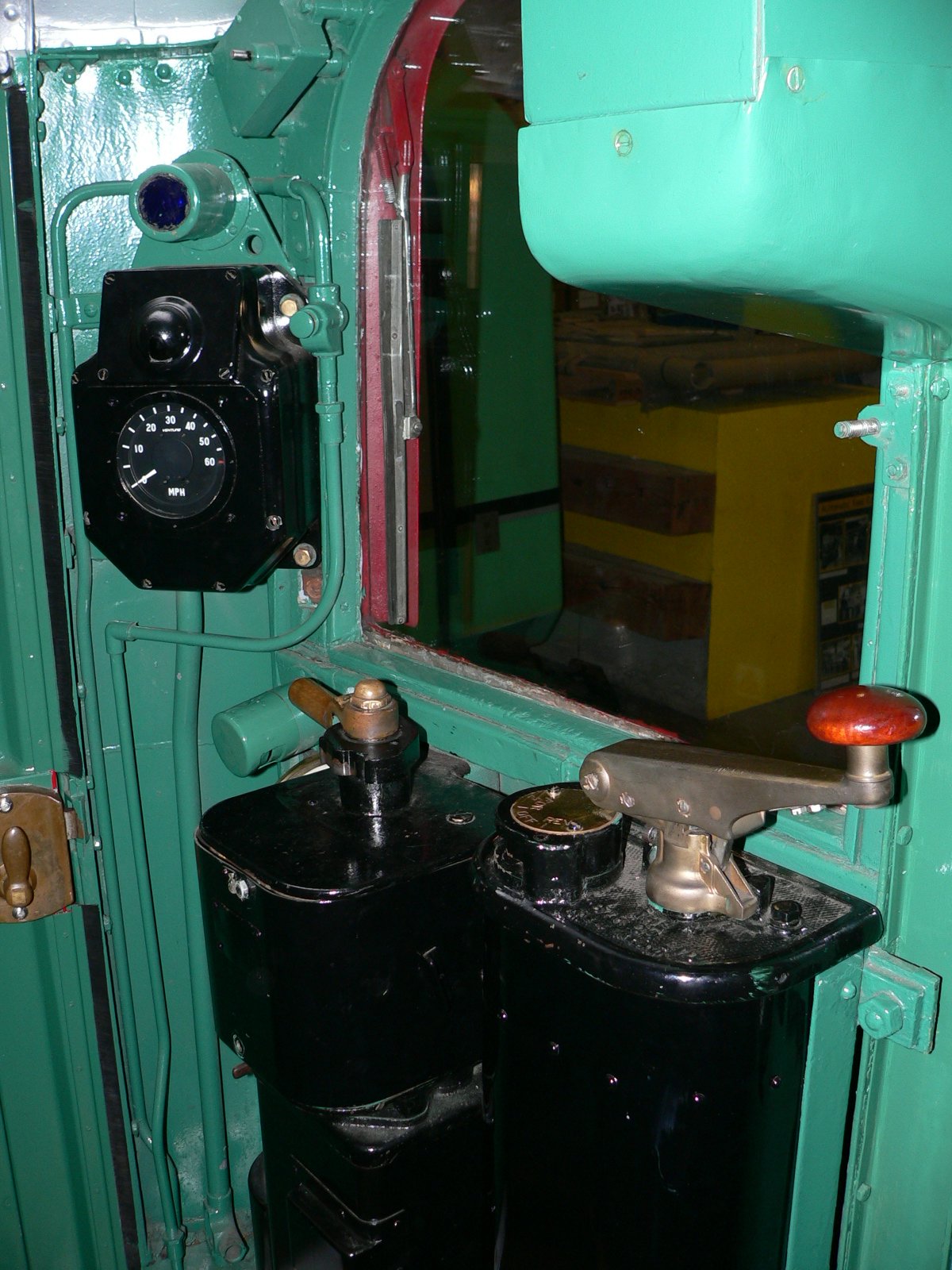 The driving controls of a London Underground 1938 tube stock train preserved at London's Transport Museum Depot. Photographed on 22 October 2005.